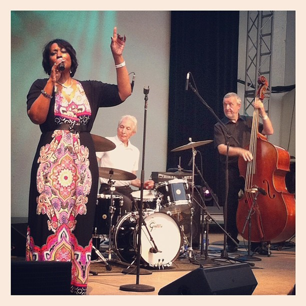 Dance party Midsummer Night Swing in New York in 2012: Charlie Watts (drums) and Dave Green (double bass) with singer Lila Ammons during a concert of The ABC&D of Boogie Woogie at Lincoln Center on June 28 (first performance of the band in the USA)